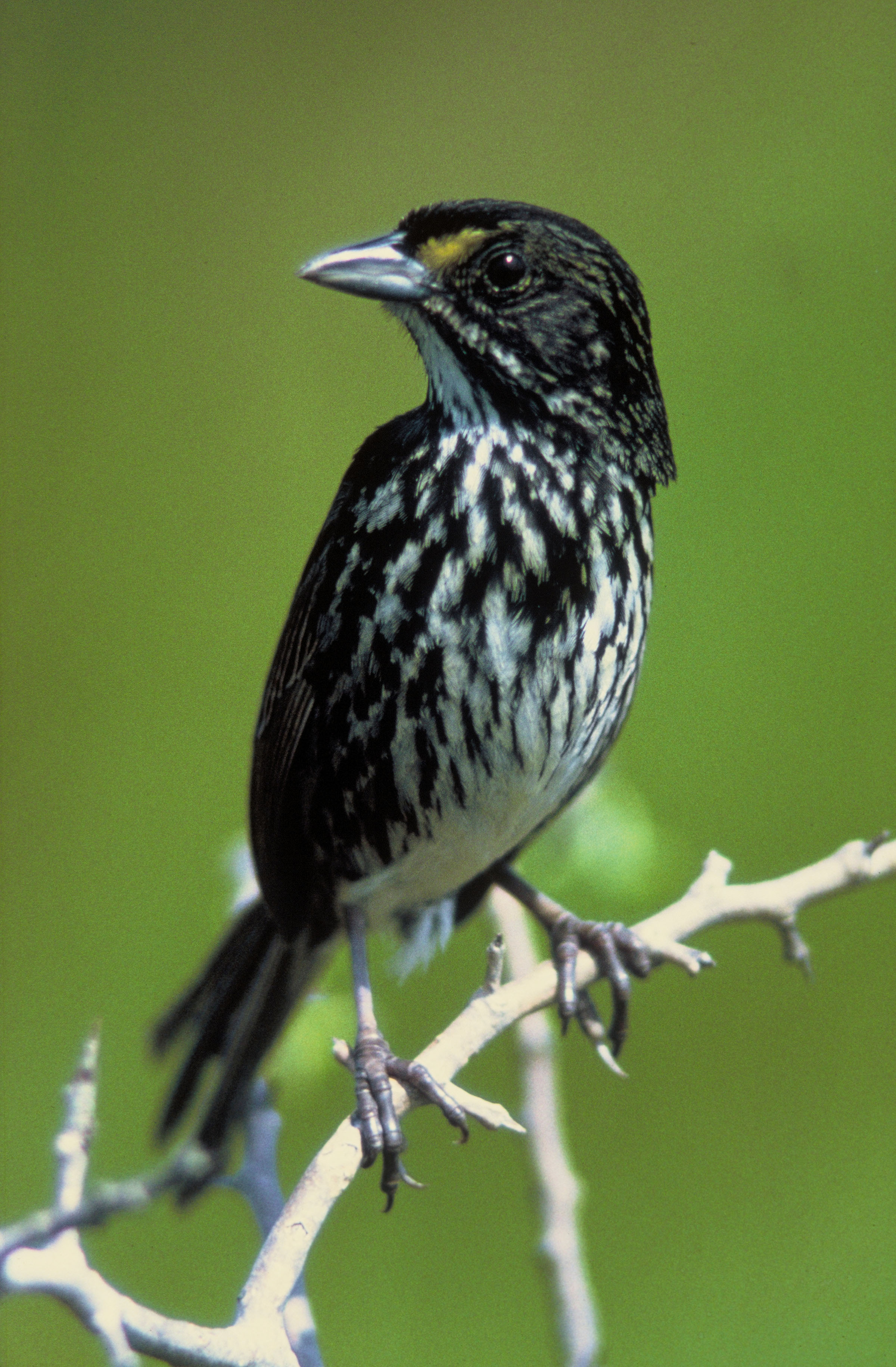 Dusky Seaside Sparrow (Ammodramus maritimus nigrescens)